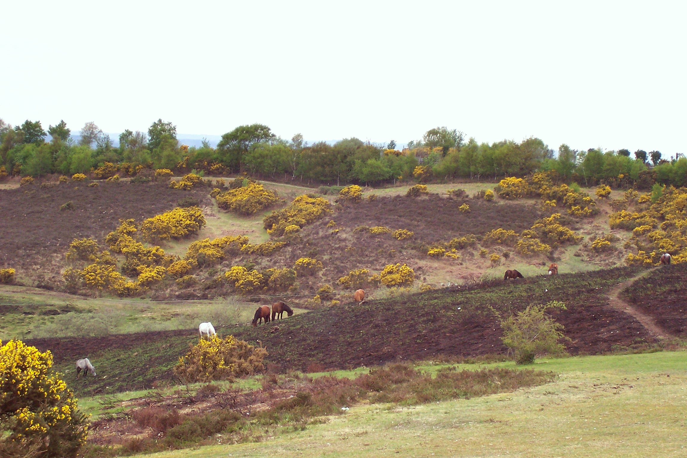 New Forest heath and horses